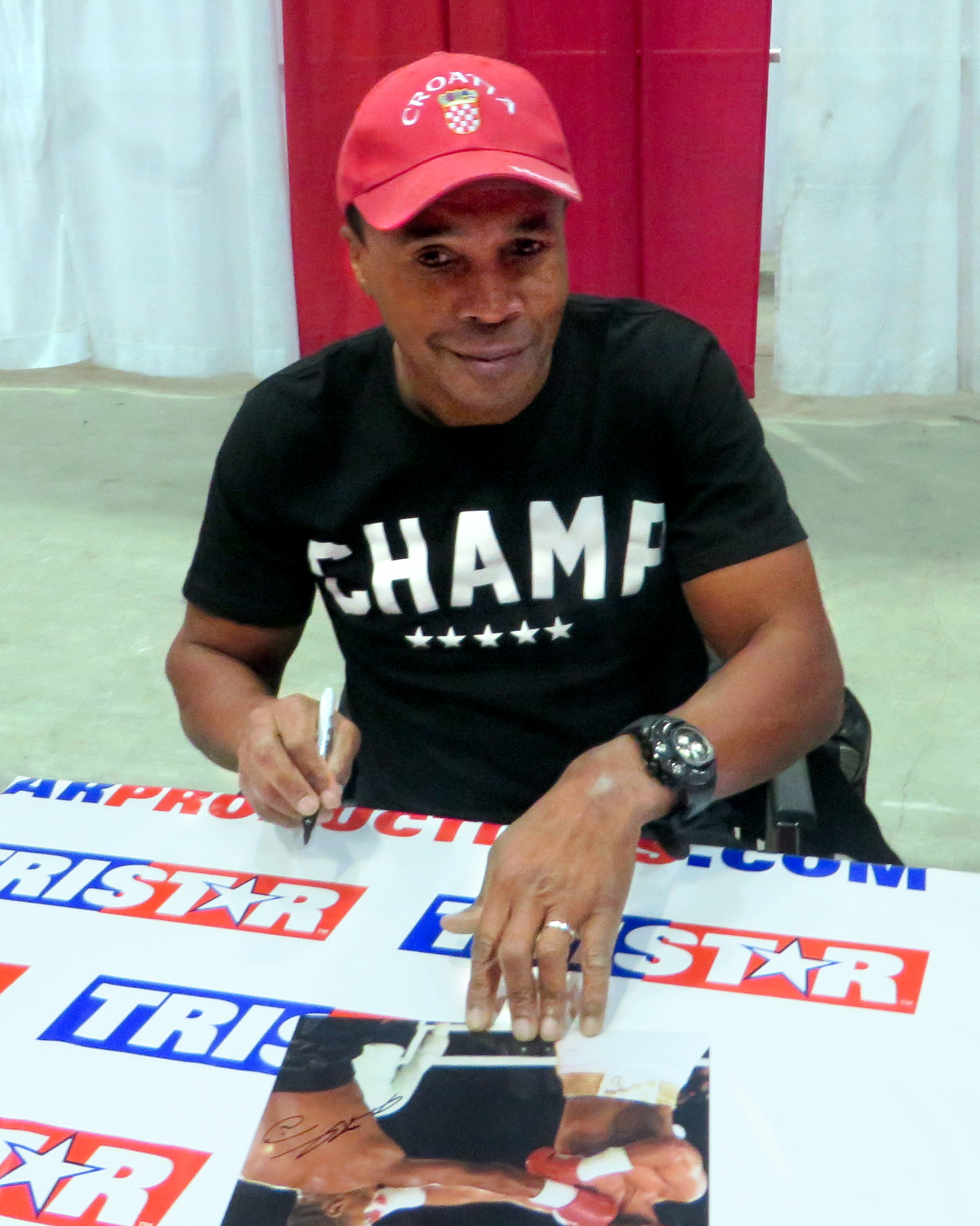 Sugar Ray Leonard signs autographs at a Tristar Productions sports collectors show in Houston in January 2014.